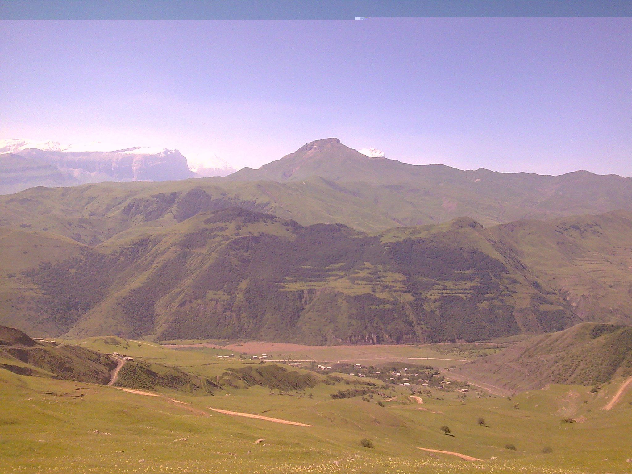 View of the peak of Gestinkil from Kourah district in Dagestan, near the village of Kochkhyur.